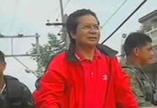 Abdulgani A. Salapuddin